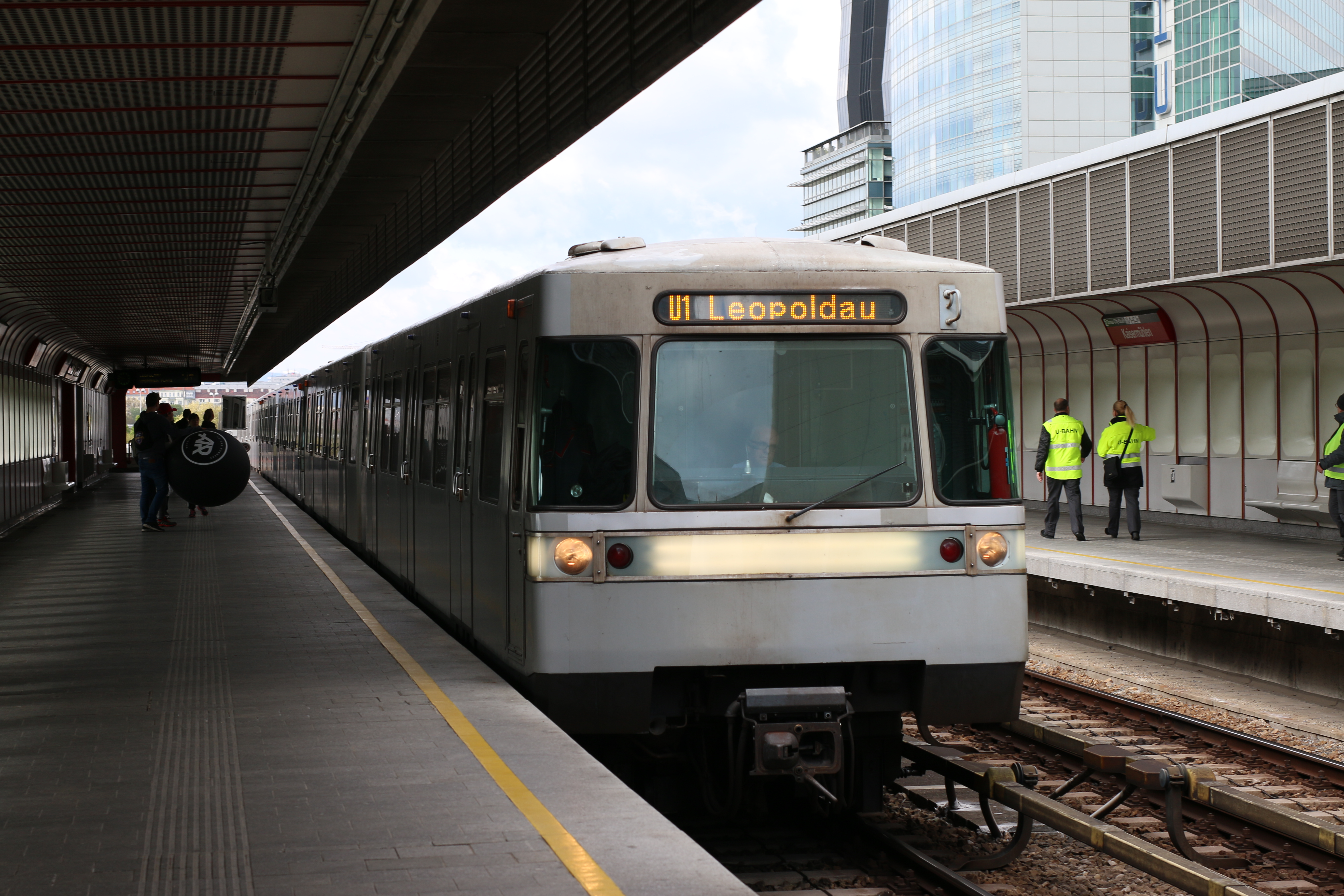 Vienna U1 station Kaisermühlen